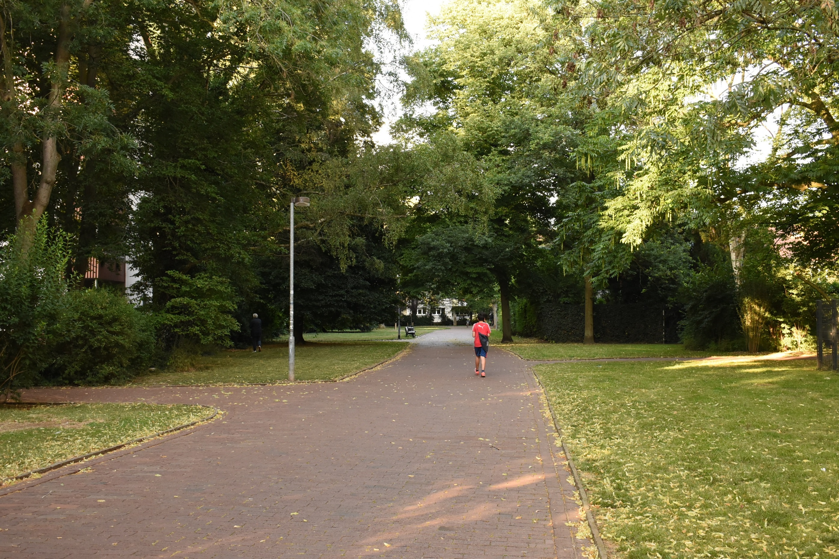 Wildermuth Lane in Hannover, view to the east